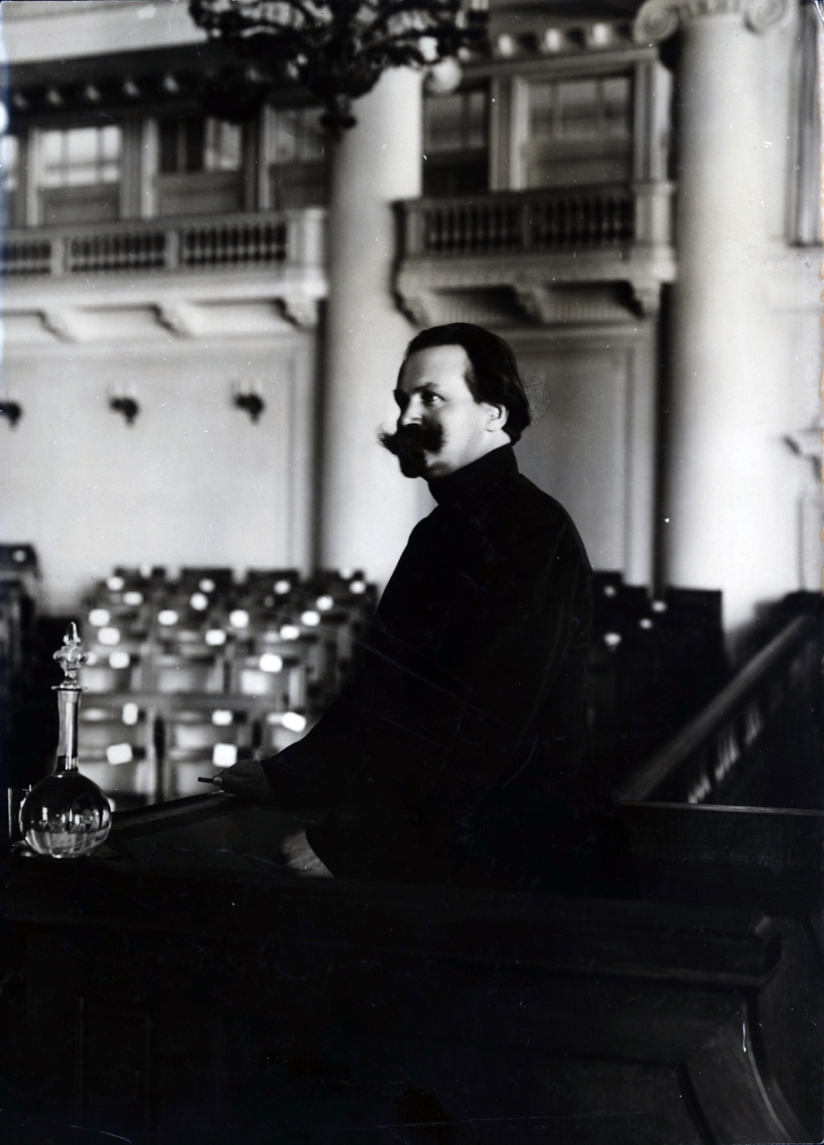 Mikhail Chelyshev